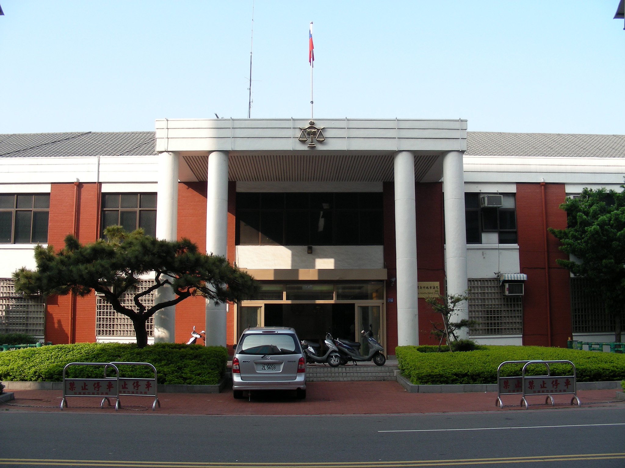 The "Hsinchu District Court" in Hsinchu City, Taiwan